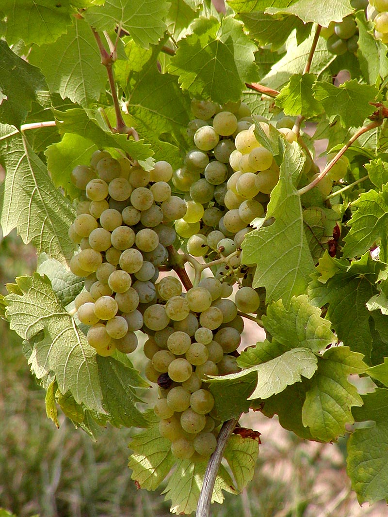 Photo of ripening white grapes above the Mosel River, Rhineland-Palatinate, Germany